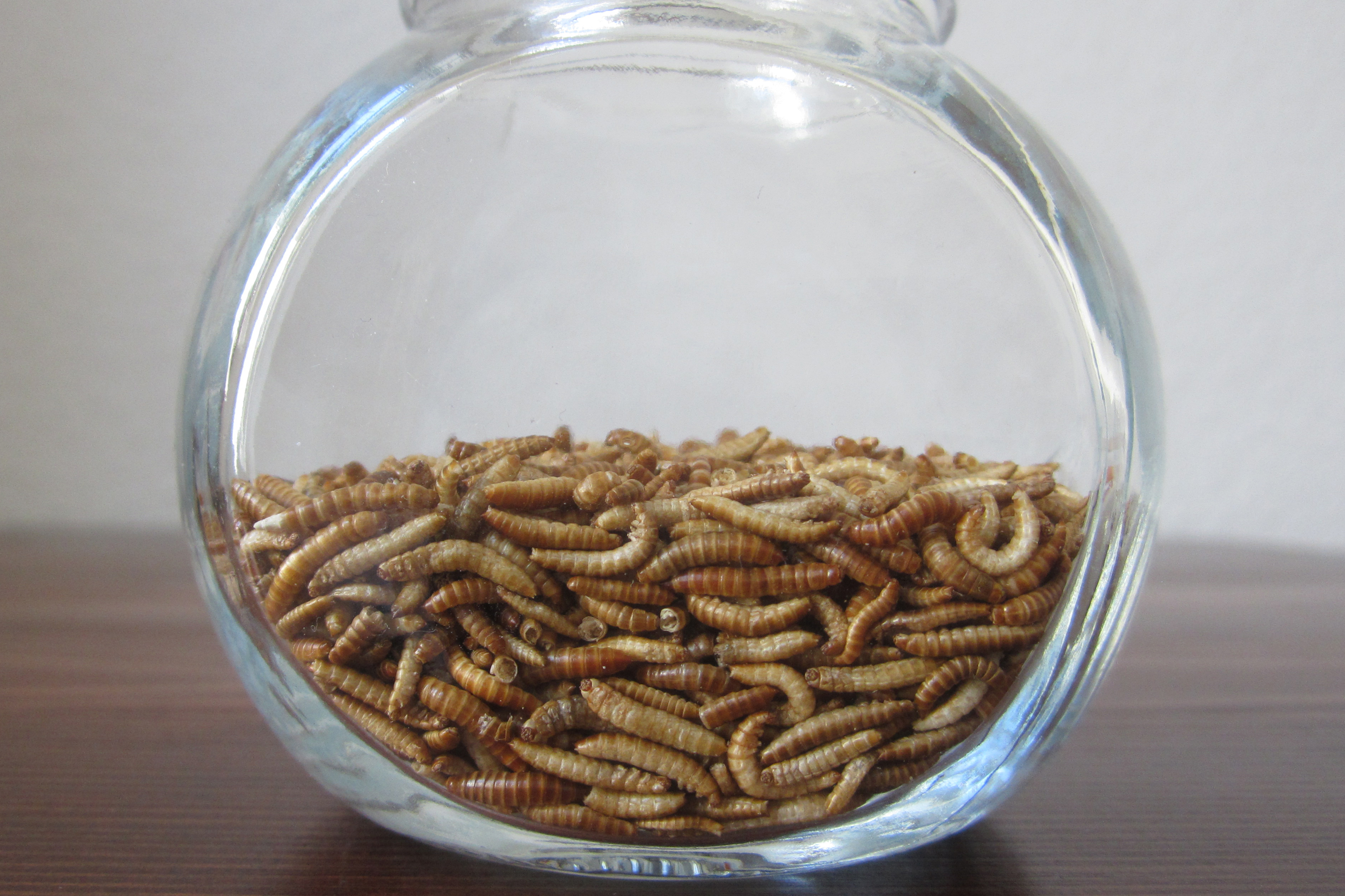 Freeze-dried buffaloworms as food (edible insects) or food ingredient. Buffaloworms, also known as lesser mealworms, are the larvae of the litter beetle (Alphitobius diaperinus), a species of darkling beetle.